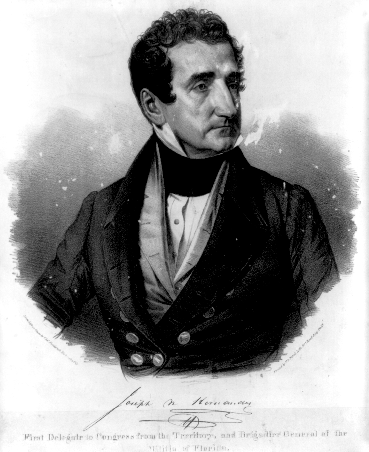 Downloaded from TITLE: Joseph N Hernandez, First Delegate to Congress from the Territory, and Brigadier General of the Militia of Florida CALL NUMBER: PGA - Fenderich, no. 147 (B size) [P&P] REPRODUCTION NUMBER: LC-USZ62-49297 (b&w film copy neg.) RIGHTS INFORMATION: No known restrictions on publication. MEDIUM: 1 print. CREATED/PUBLISHED: [no date recorded on shelflist card] NOTES: This record contains unverified data from PGA shelflist card. Associated name on shelflist card: Fenderich, Ch. Title inscribed on stone.